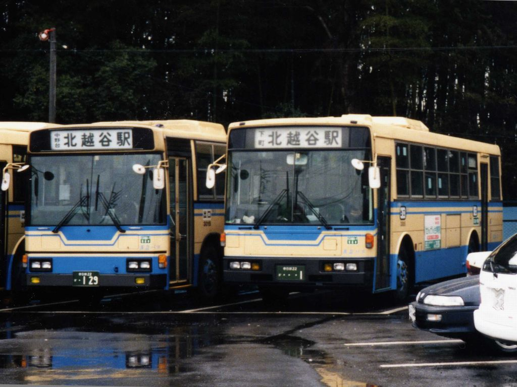 Ibaraki Kyuko Bus Hino U-HT2MMAA